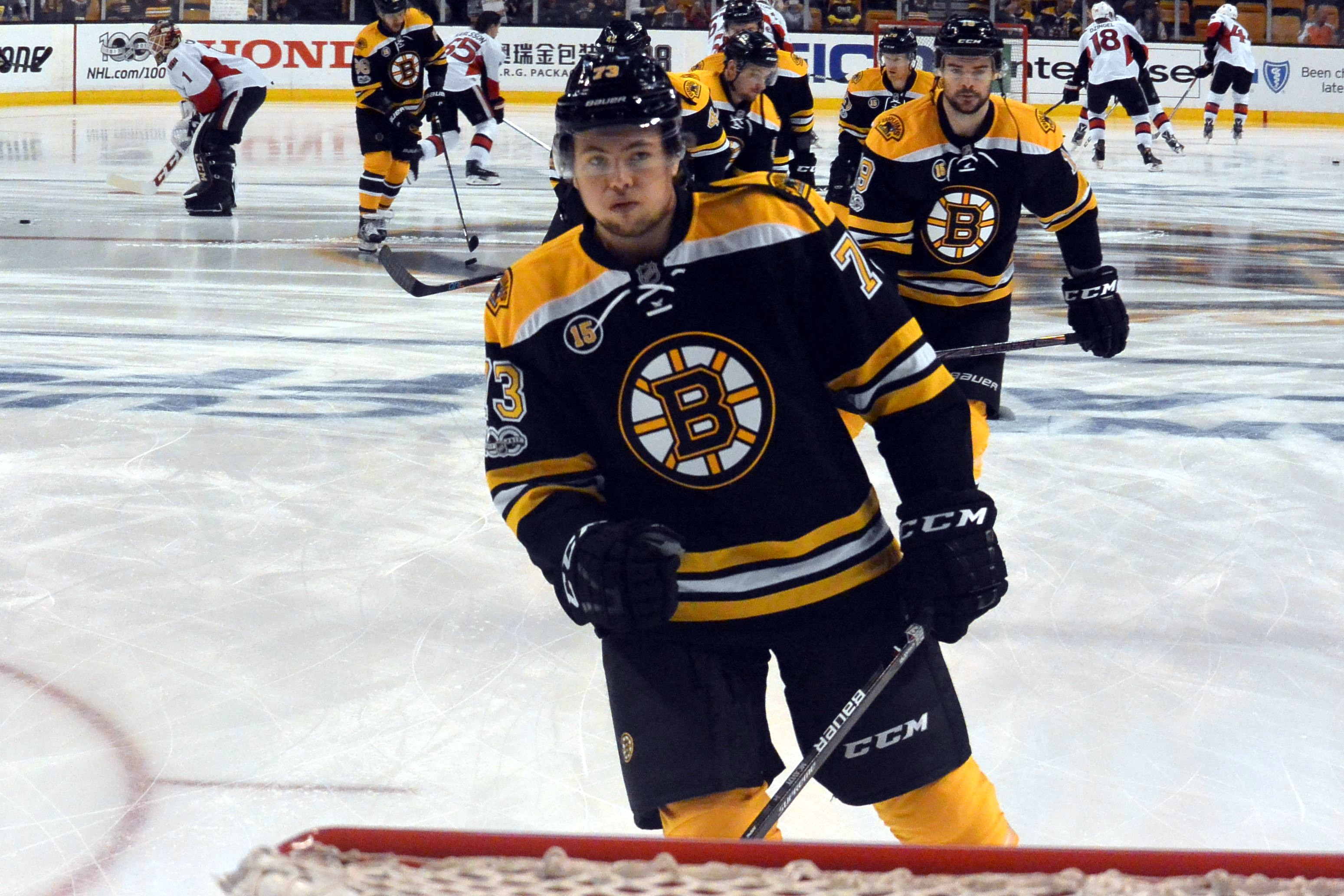 Charlie McAvoy before game 6 of 2017 Bruins Senators playoff series